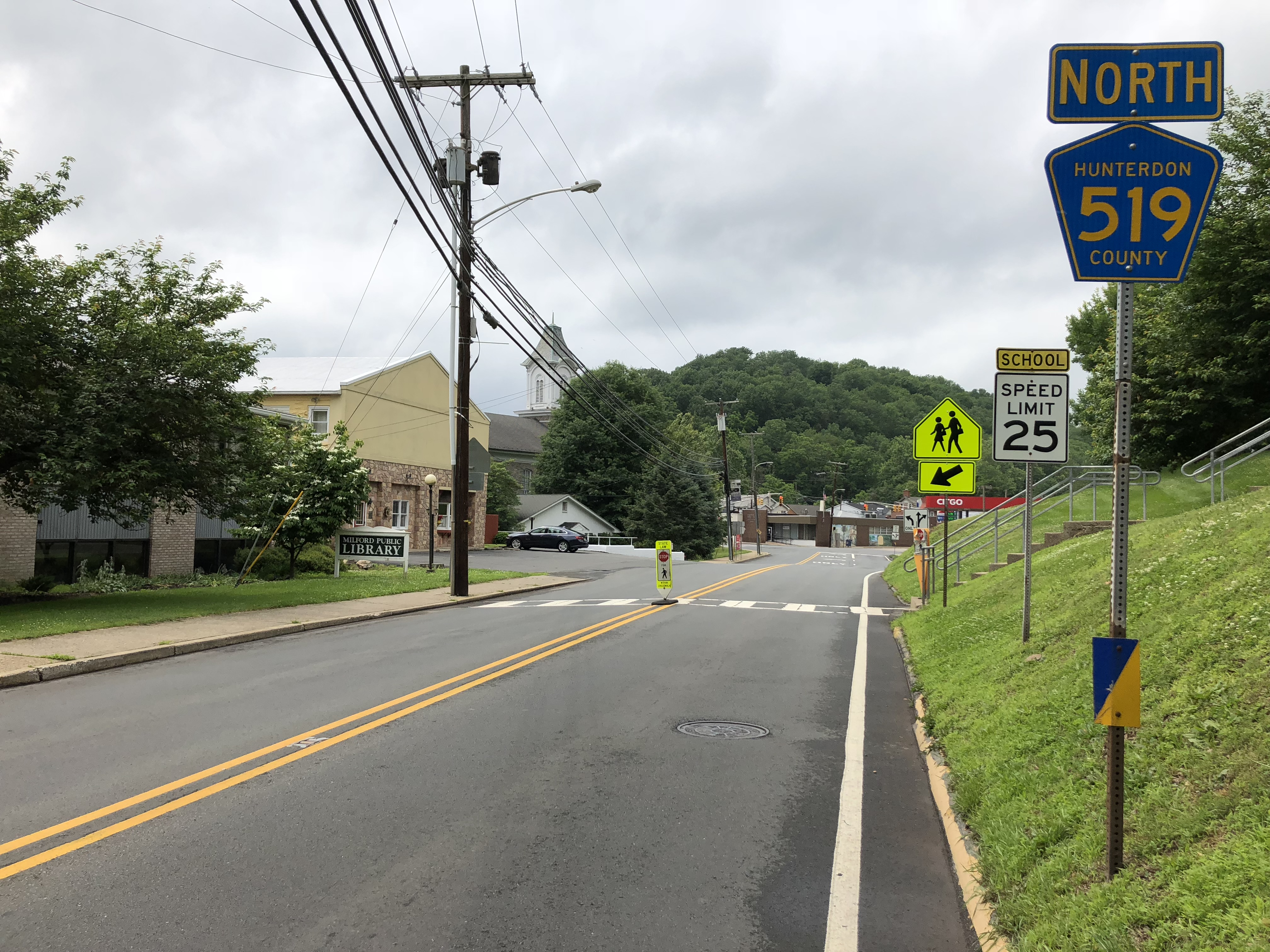 View north along Hunterdon County Route 519 (Frenchtown Road) at Mount Pleasant Road in Milford, Hunterdon County, New Jersey